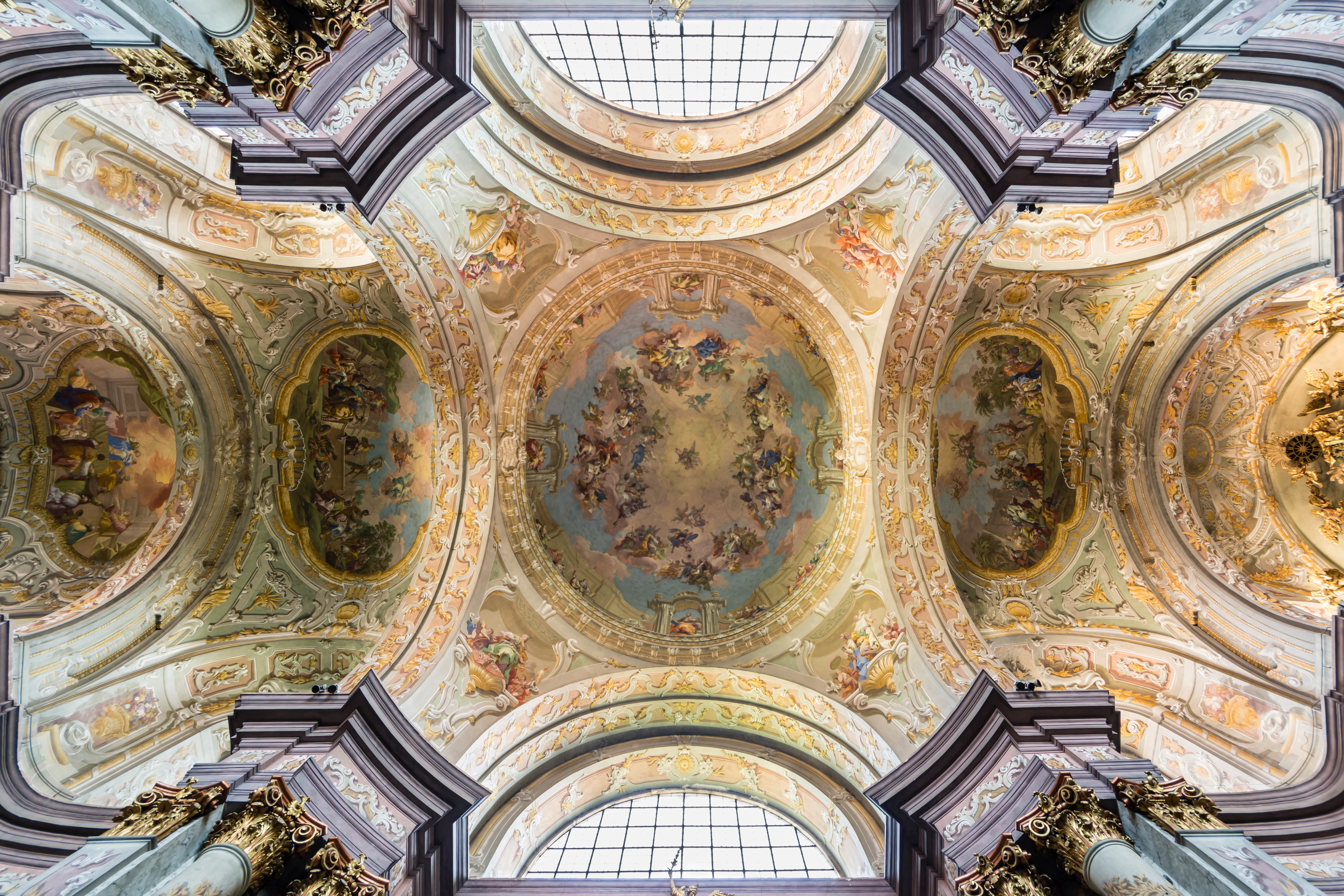 Ceiling frescos in Herzogenburg Abbey Church (Lower Austria) by Daniel Gran (left fresco) and Bartolomeo Altomonte